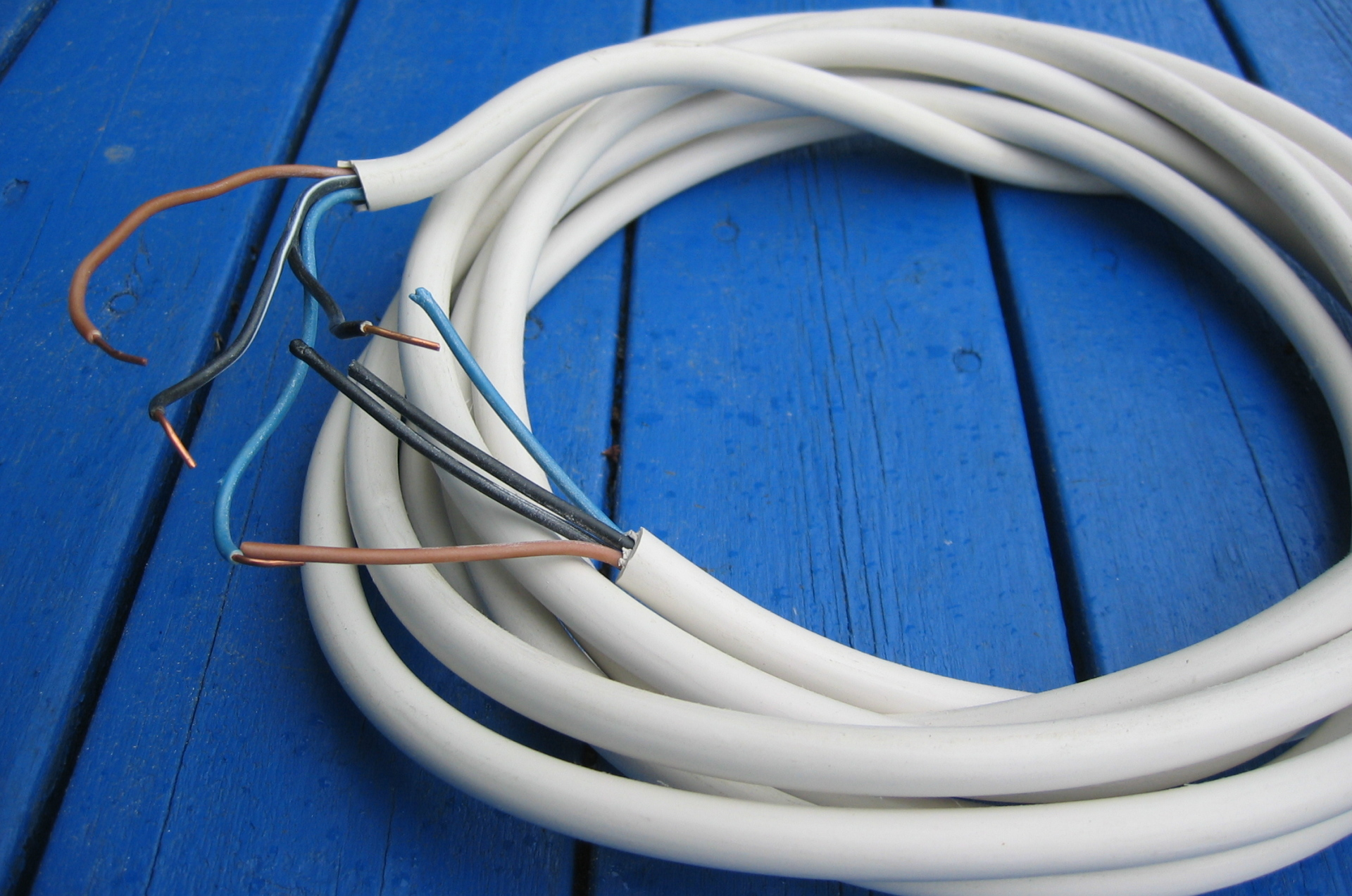 Ekk electric cable